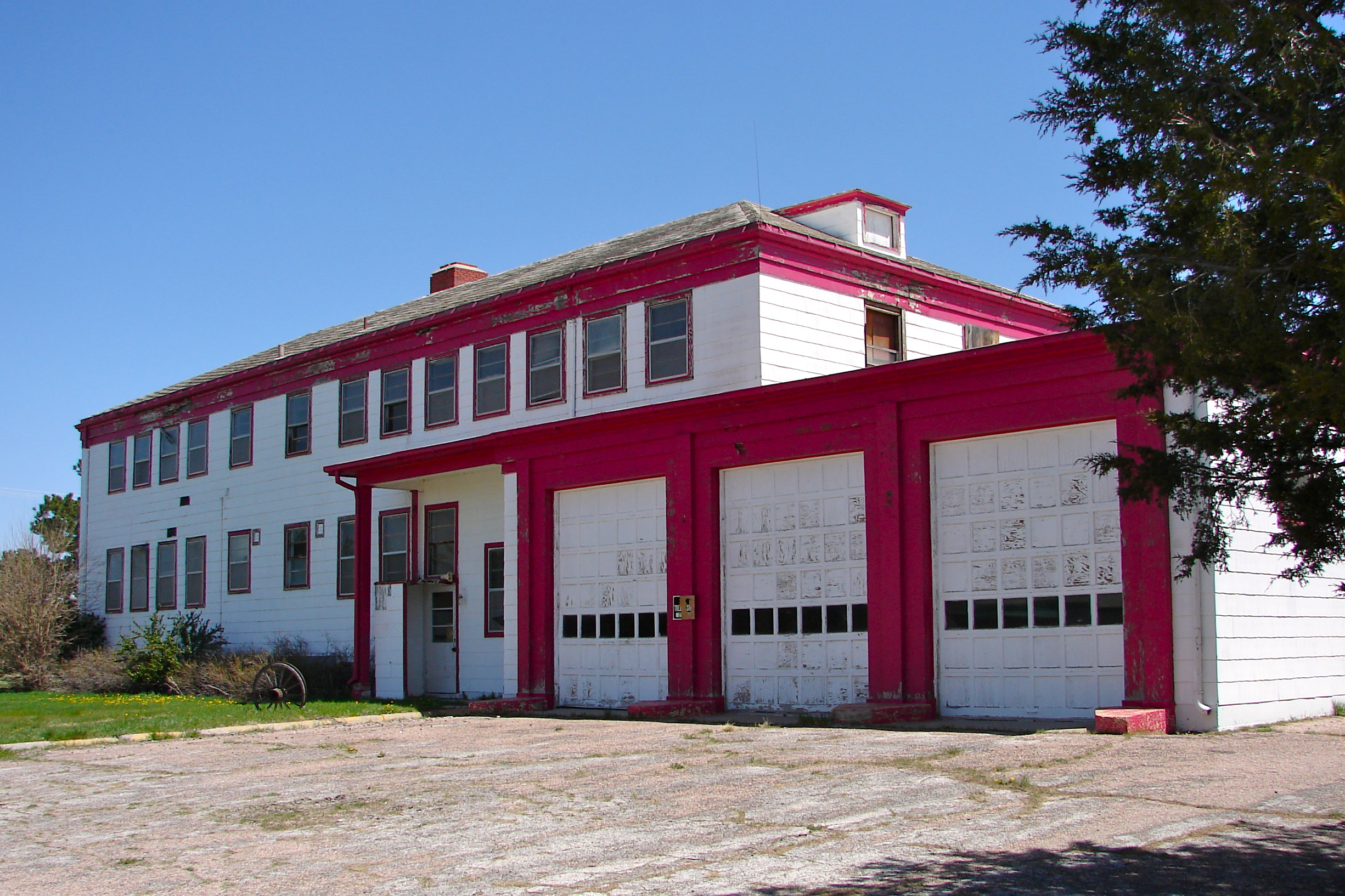 Old Fire Department building at Sioux Ordnance Depot Fire & Guard Headquarters on the NRHP since October 24, 1994. Among other things the depot stored gunpowder, so presumably the Fire Department was very important here. Near the junction of 1st Ave. and Military Rd. (some of the roads in the HD are hard to distinguish now) and near the former location of Western Nebraska Community College (water tower is left), west of Sidney, Cheyenne County, Nebraska. The depot is sorta used now as an industrial/commercial area, but is much bigger than the demand for such facilities.